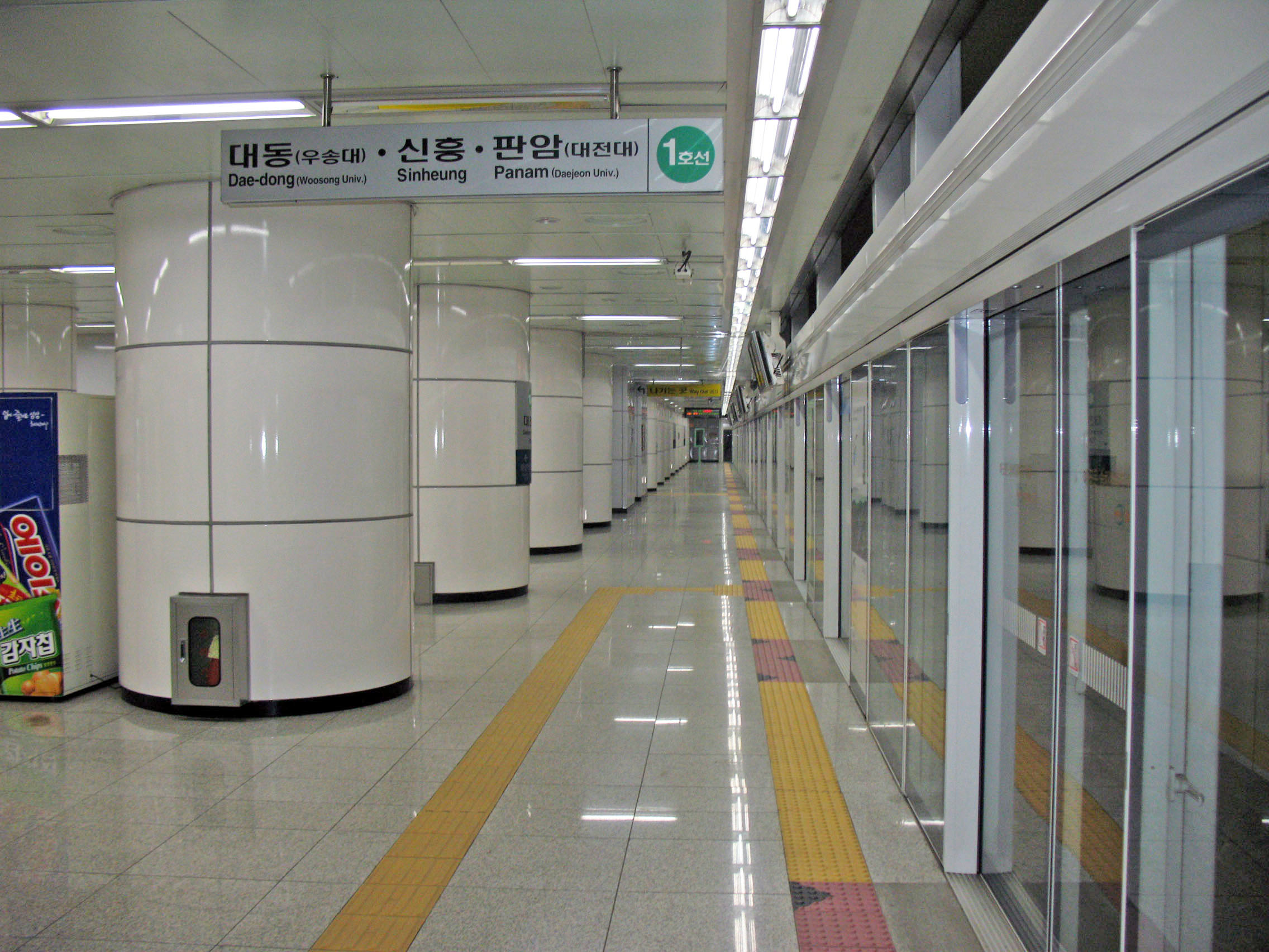 Platform of Daejeon Subway Line 1 Daejeon Station.